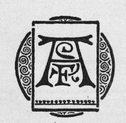 Logo branding for the Société des Aquafortistes Français, Paris.